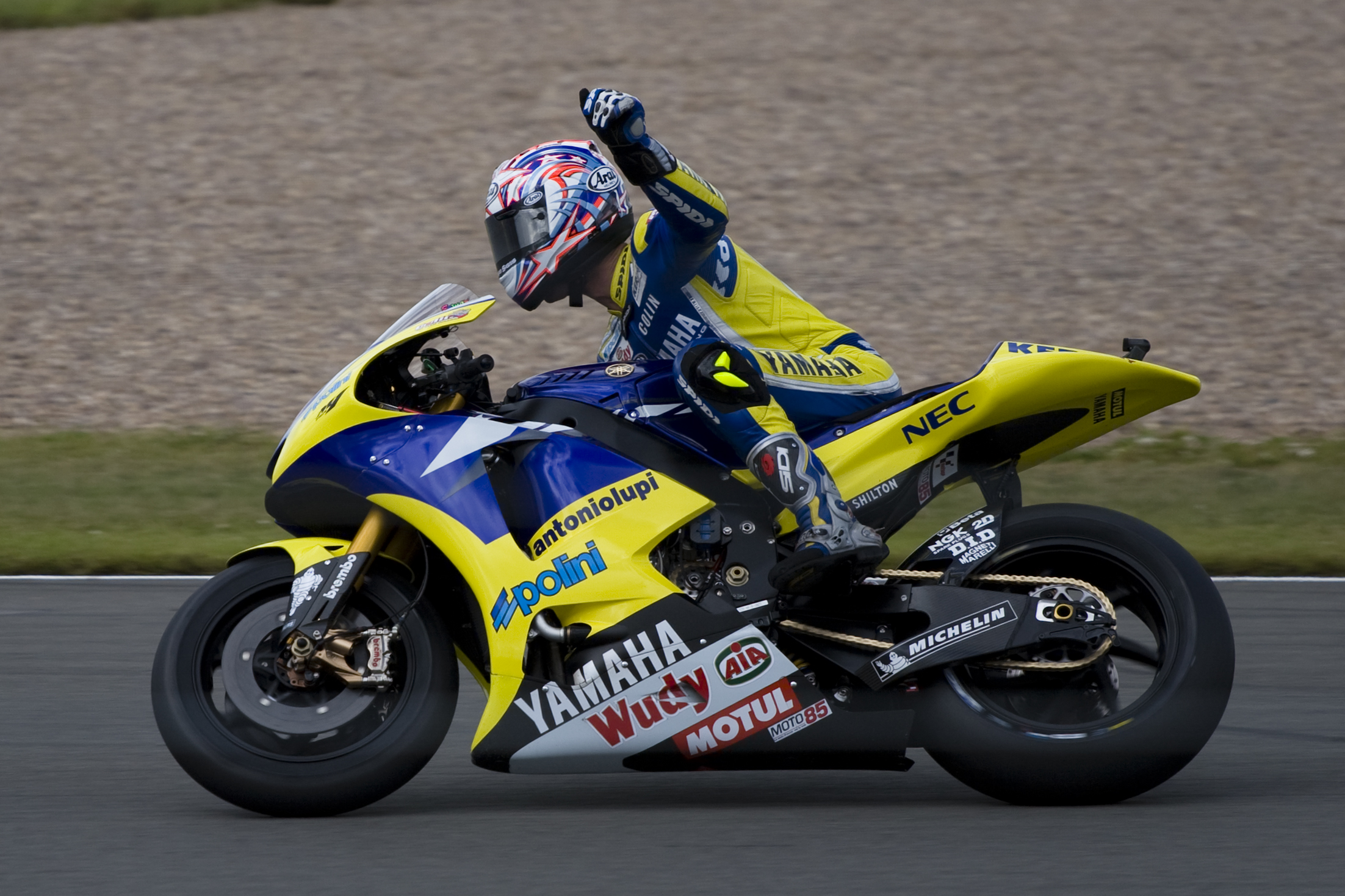 Colin Edwards, riding his Tech 3 Yamaha, waving at the crowd after finishing in fourth place the 2008 British Grand Prix.